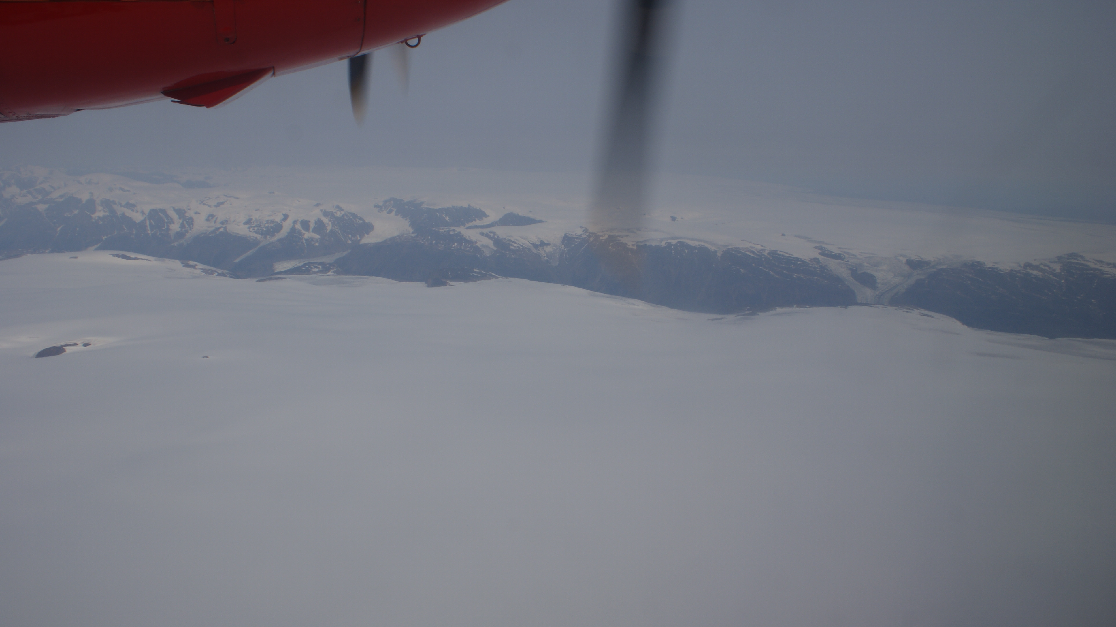 Maniitsoq icesheet in the Qeqqata municipality in central-western Greenland. Photographed in very poor visibility from the Air Greenland de Havilland Canada Dash-7 "Sapangaq" during the Nuuk-Kangerlussuaq flight.